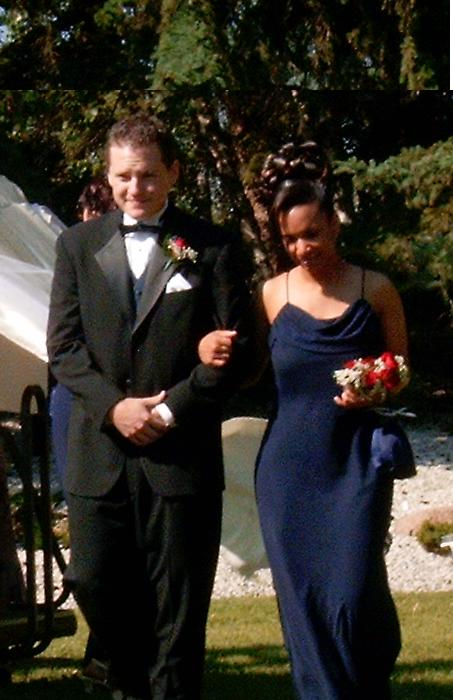 Bridesmaid dress with spaghetti straps. Wedding - Bridesmaid in long gown. Current image.